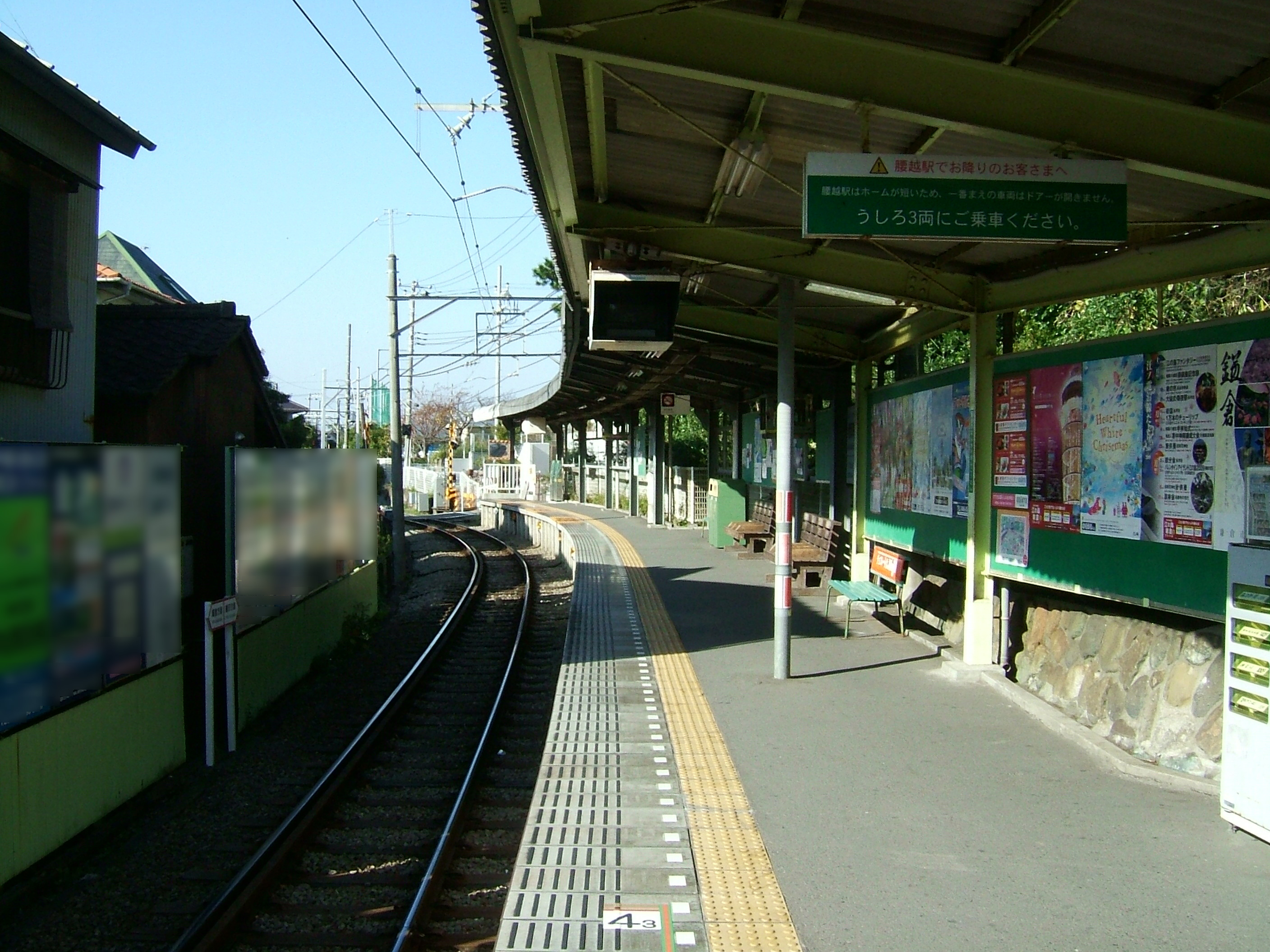 The platform at Shōnan-Kaigan-Kōen Station on the Enoden Line in Fujisawa city, Kanagawa prefecture, Japan